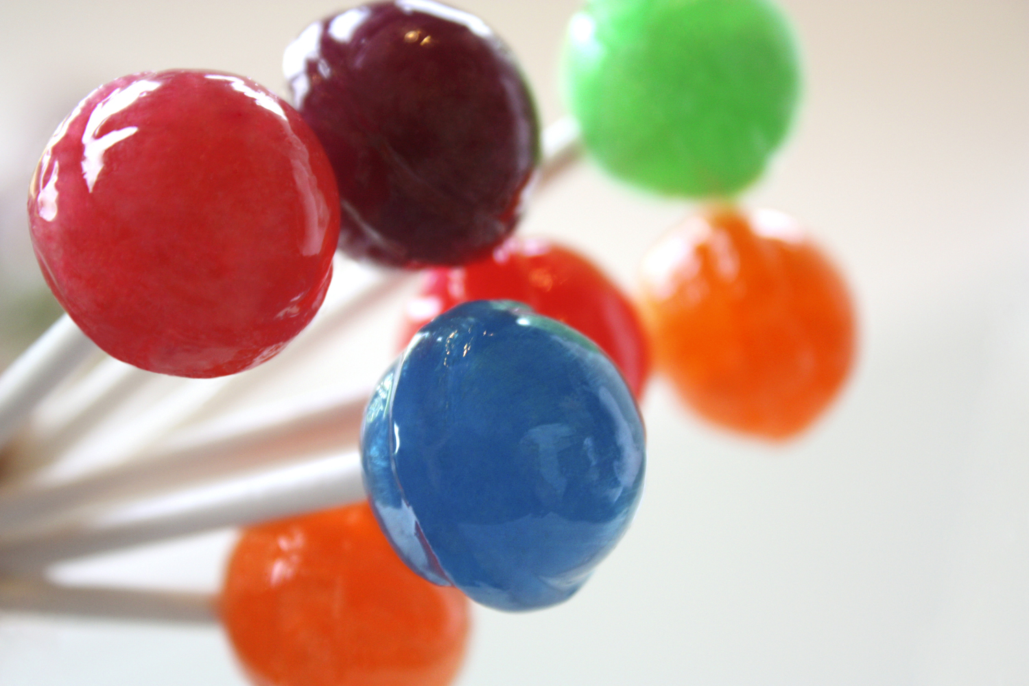 Unwrapped Dum Dums Lollipops